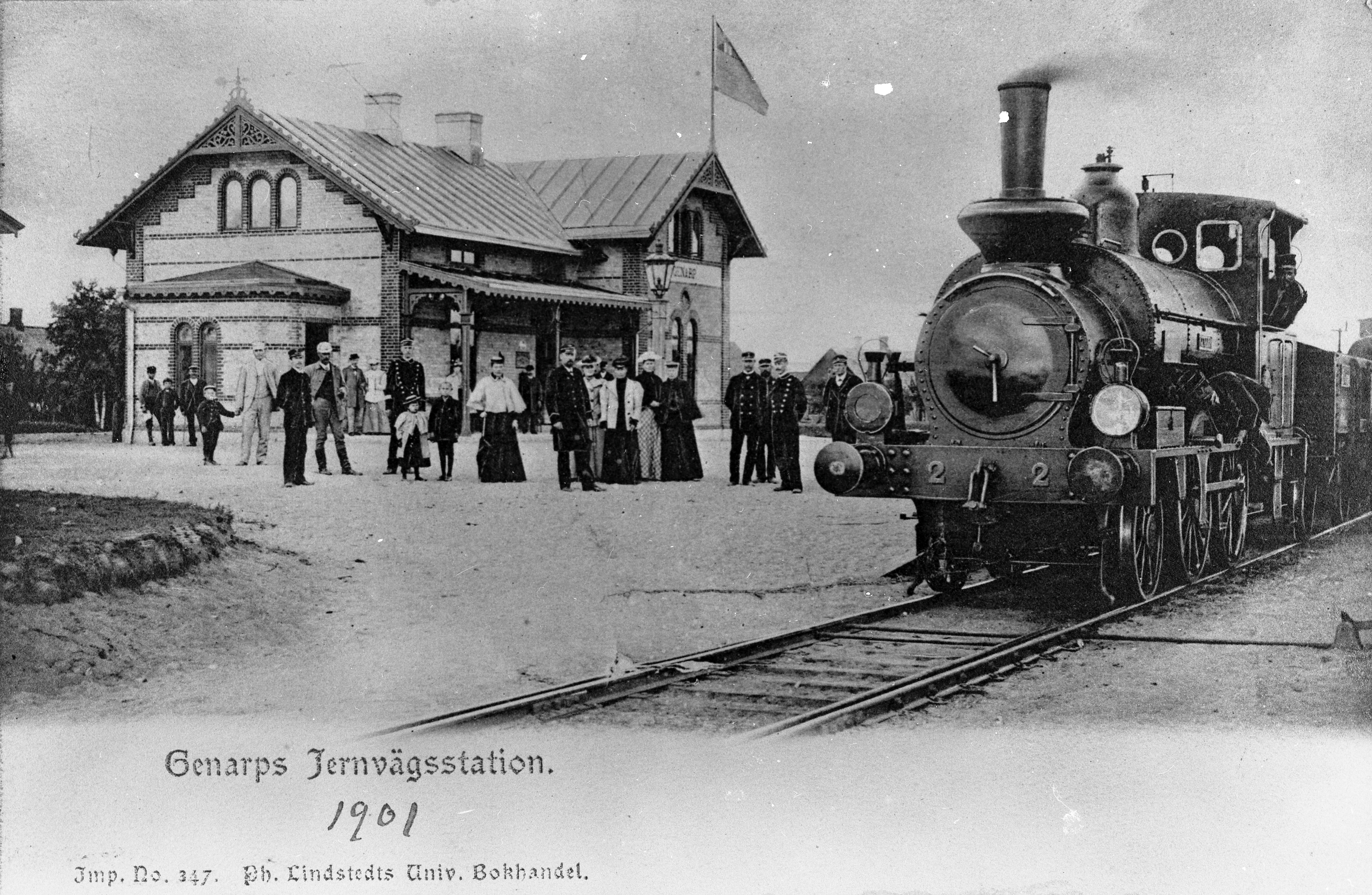 Genarp railway station, postcard from 1901.